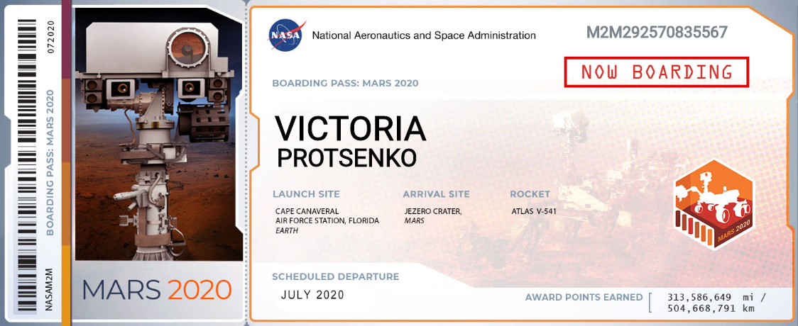 E-ticket on Mars